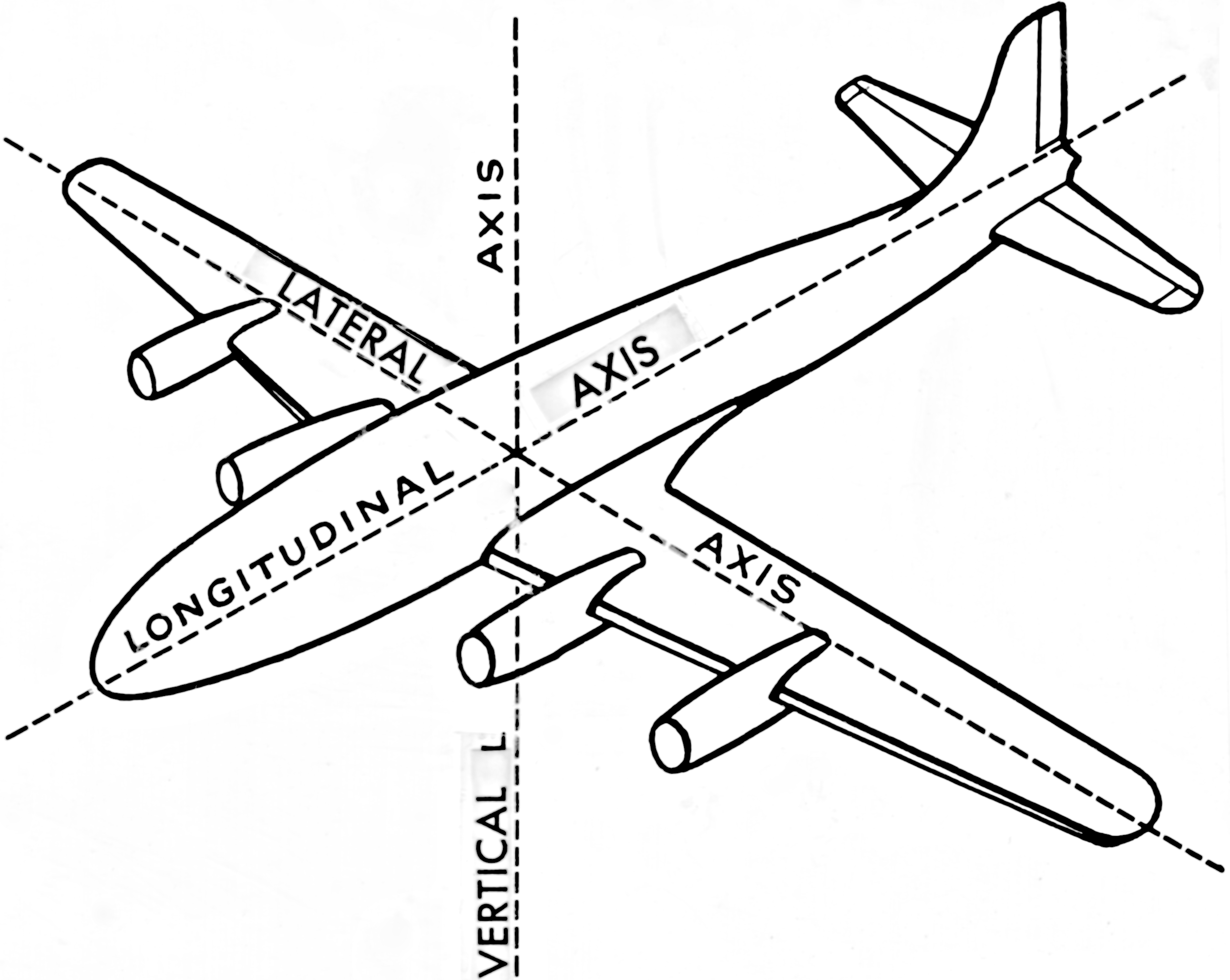 Airplane showing XYZ axes with labels